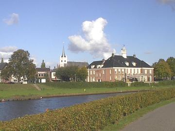 own picture